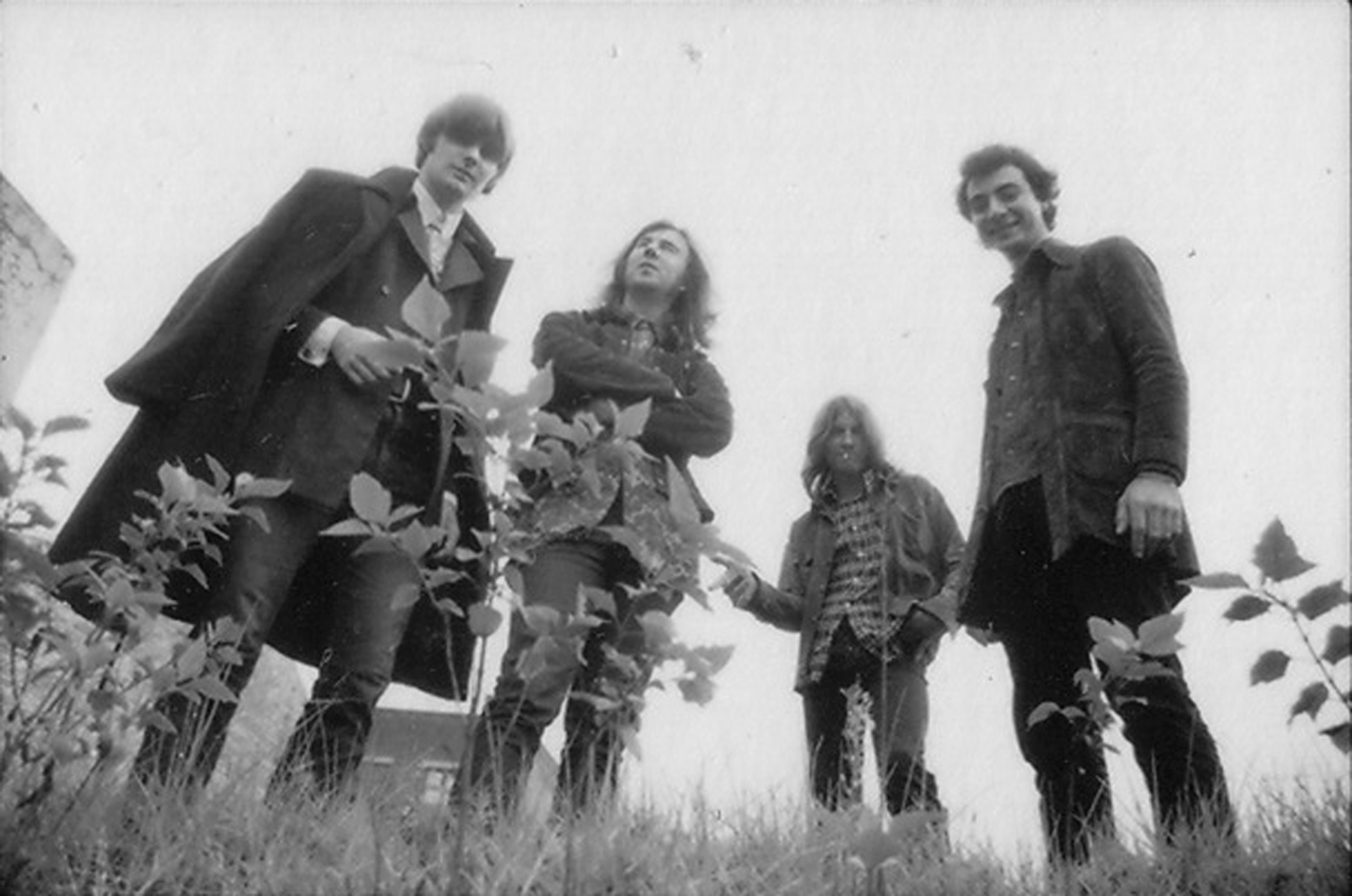 Group photo of the Moffs 1985